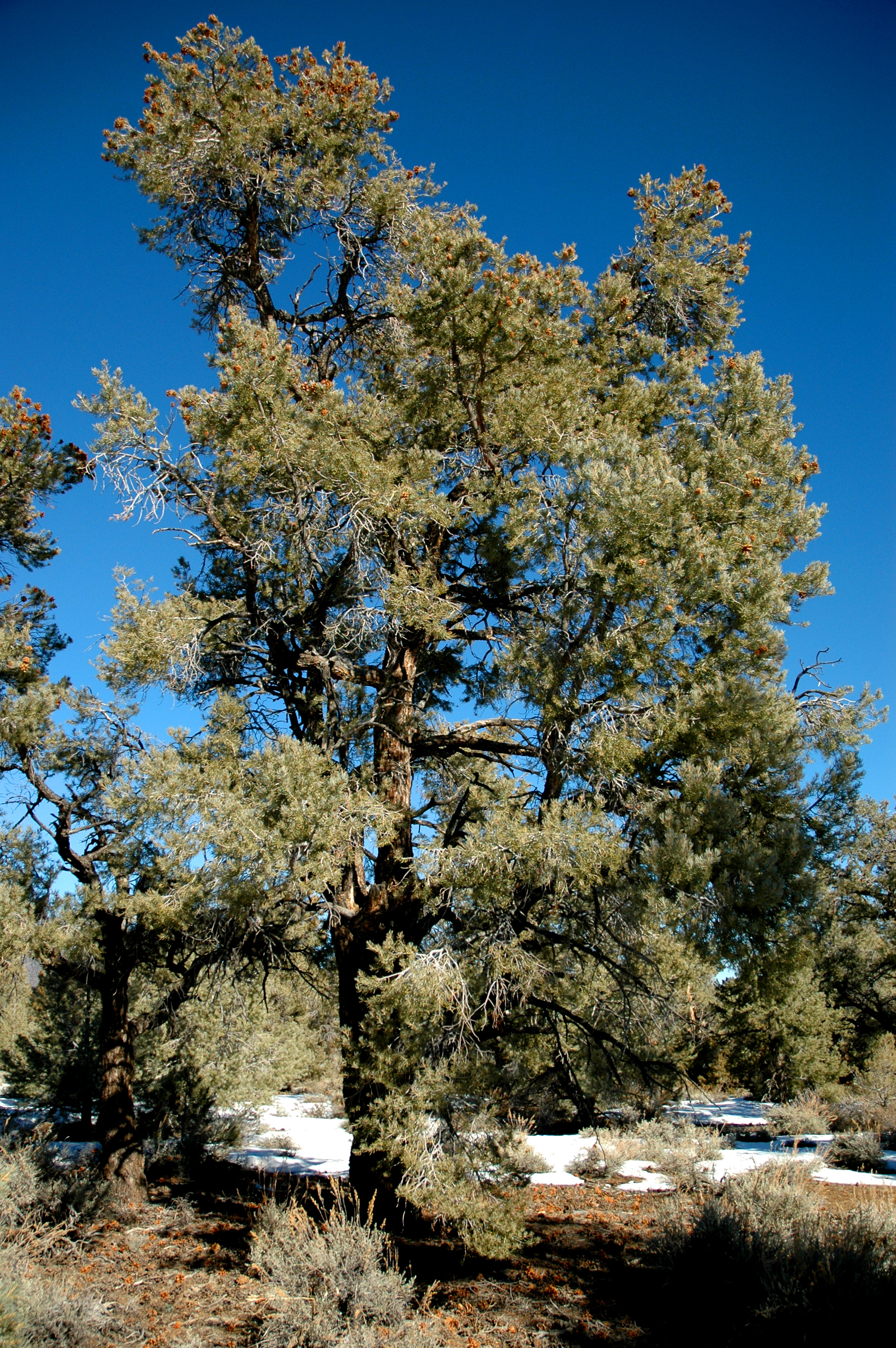 Pinus monophylla (Pinyon pine) tree with cone crop, in the White Mountains — in Inyo County, eastern California. In the the Inyo National Forest, near the entrance to the Ancient Bristlecone Pine Forest.